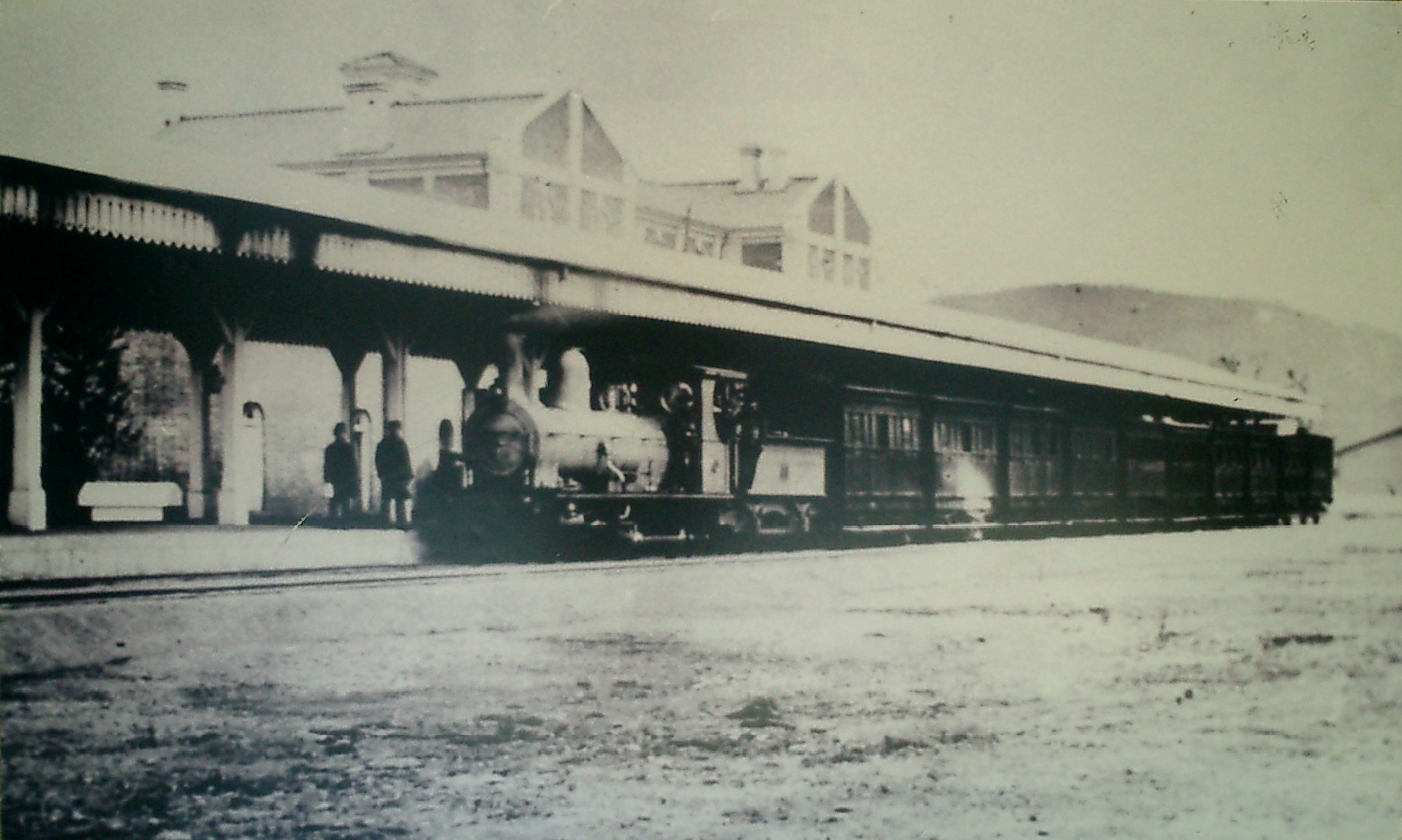 Kyoto Station